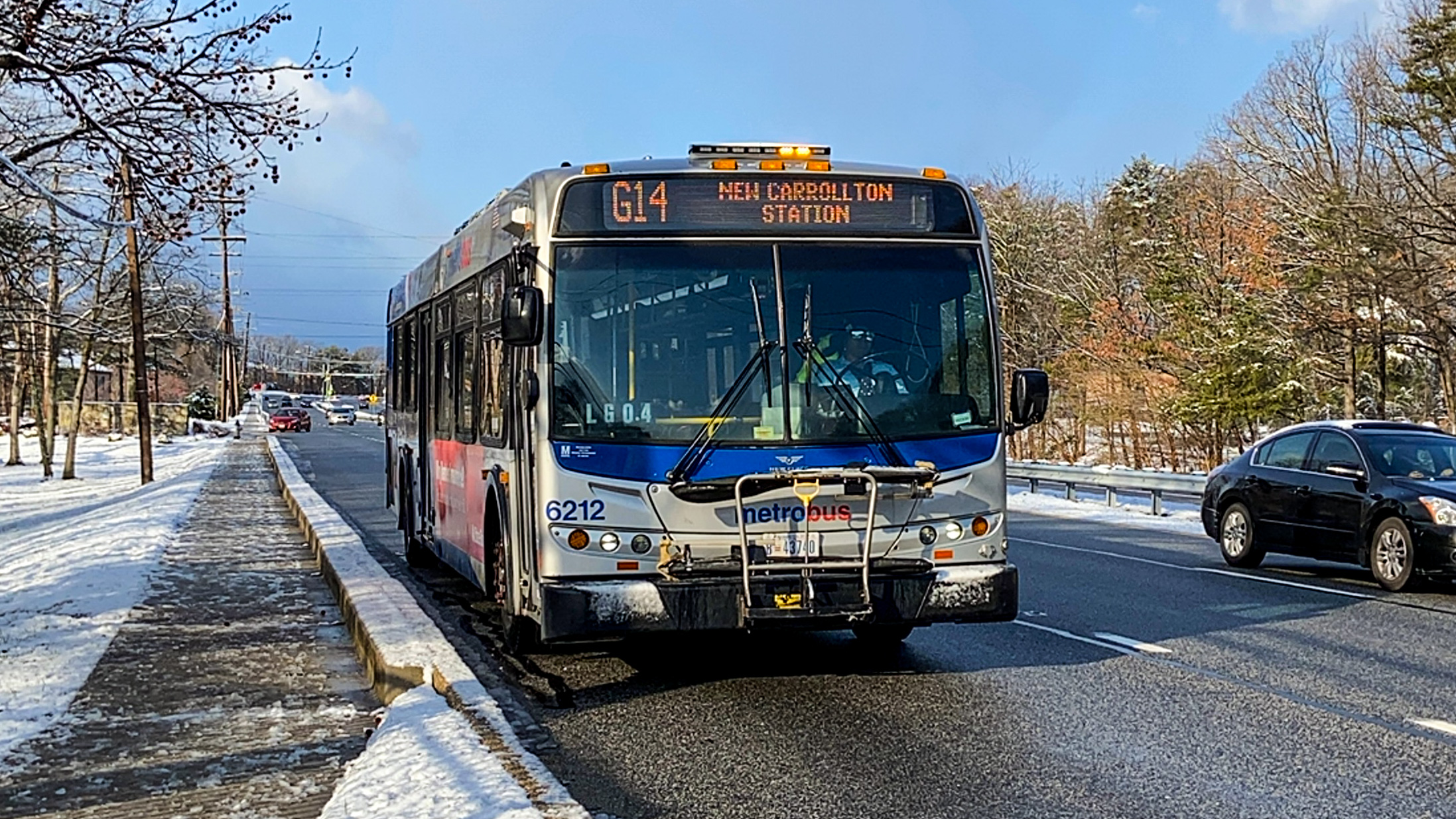 WMATA New Flyer D40LFR 6212 on Route G14